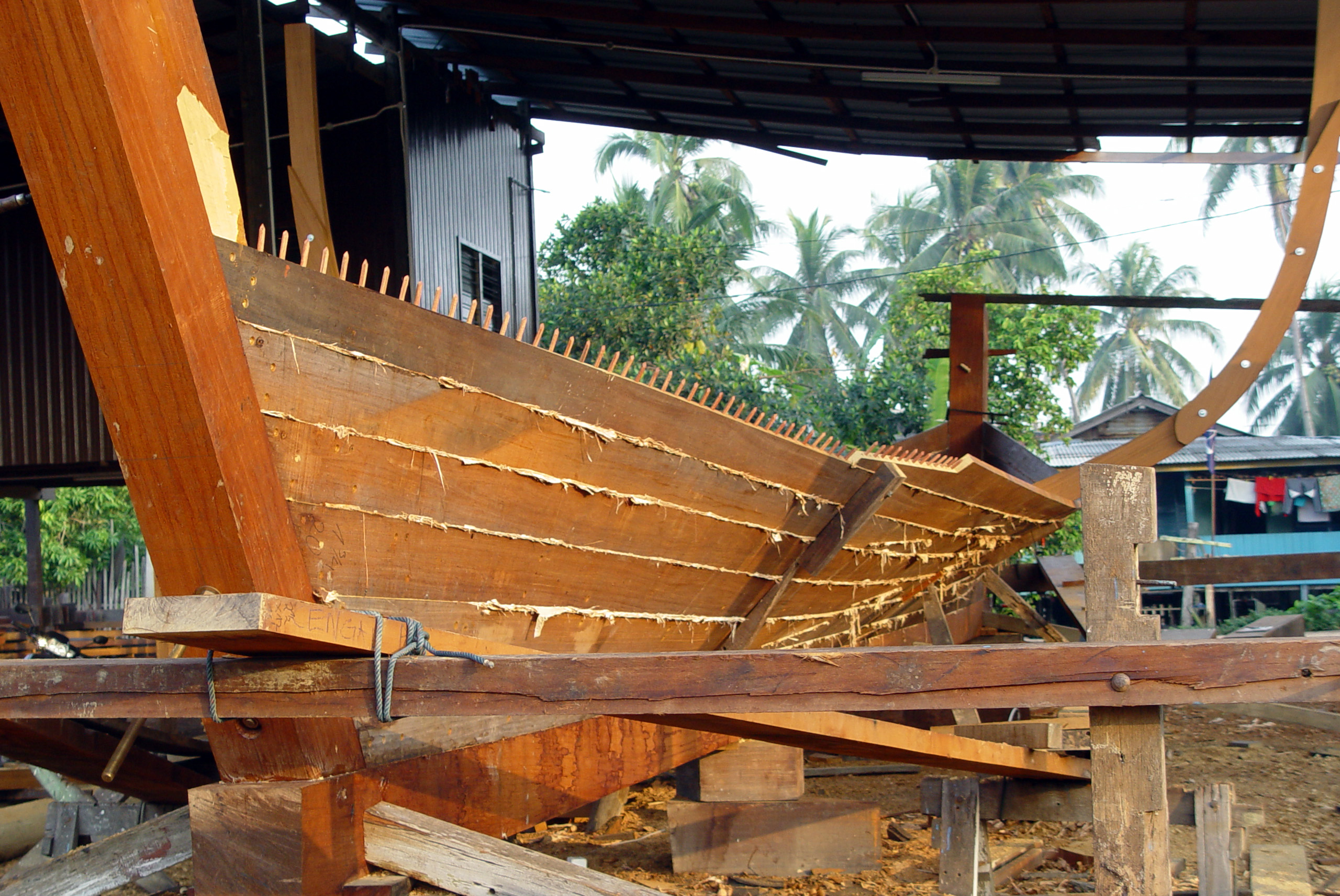 2004 building the Naga Pelangi several planks are up, notice the wooden dowels and the caulking bark